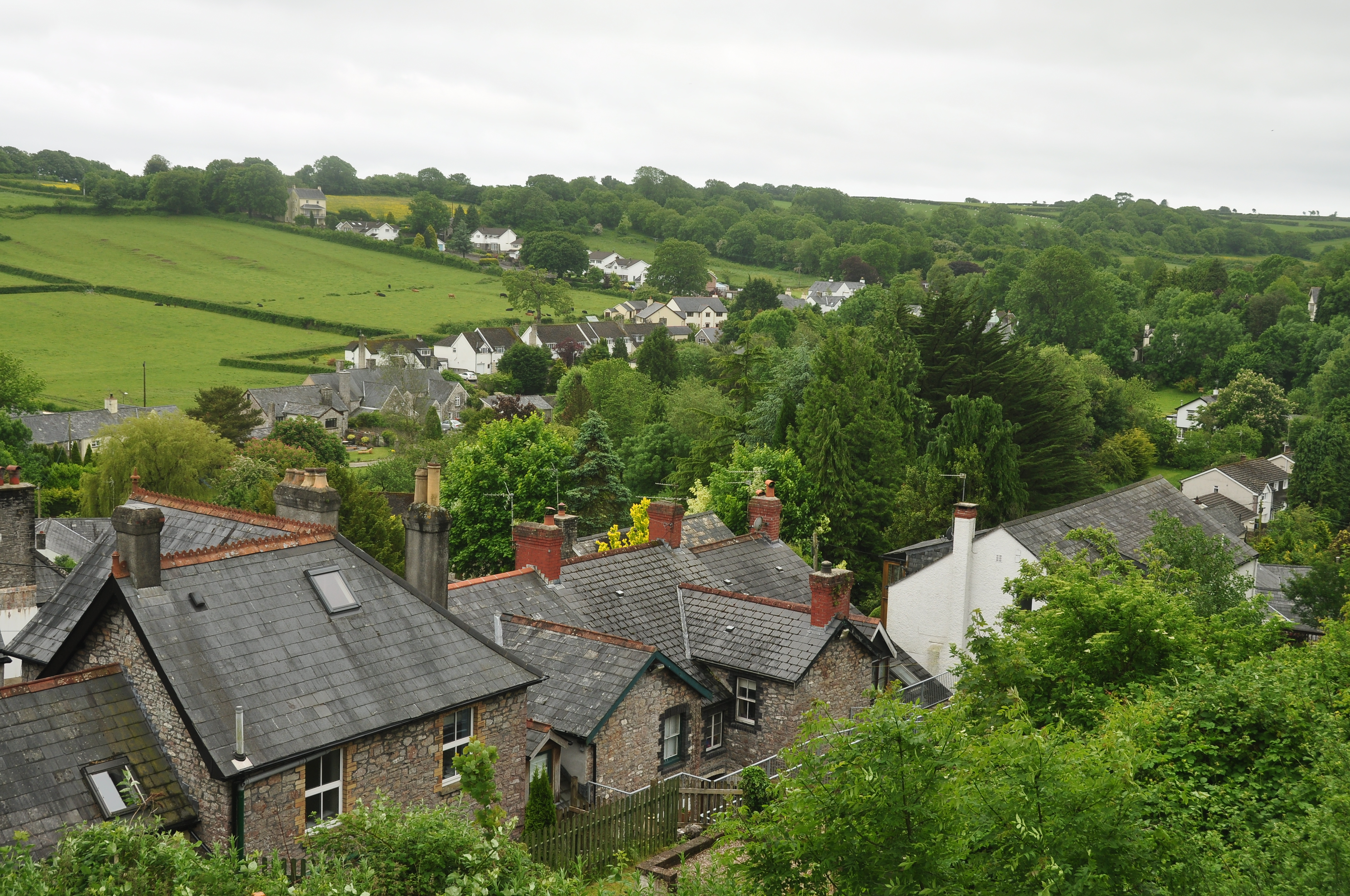 View from St Quintins Castle